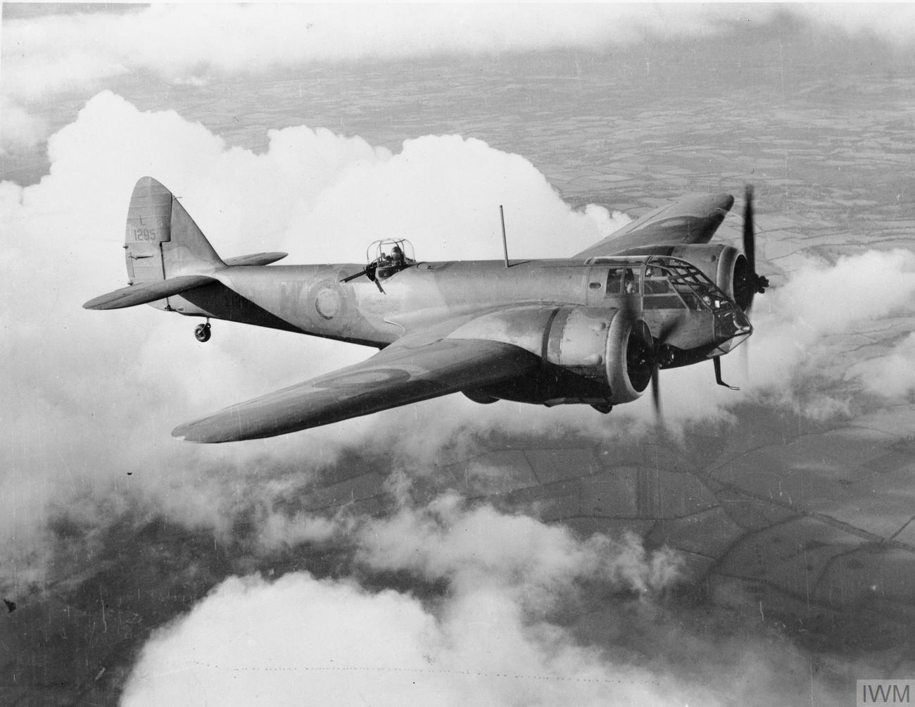 Aircraft Ofthe Royal Air Force, 1939-1941- Bristol Type 142m Blenheim I. Bristol Blenheim Mark I, L1295 in flight above the clouds. This aircraft commenced service in August 1938 with No. 107 Squadron RAF, followed by No. 600 Squadron RAF, the Royal Aircraft Establishment, No. 54 Operational Training Unit, RAF Cranwell, No. 3 Radio School, and finally No. 12 (Pilots) Advanced Flying Unit, with whom she was damaged beyond repair after crash-landing at Harlaxton on 29 July 1943. For reasons not known, the fuselage roundel and unit code were painted out at the time this photograph was taken.